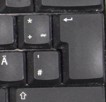 The right part of a German standard keyboard showing a Return key spannimg across to rows